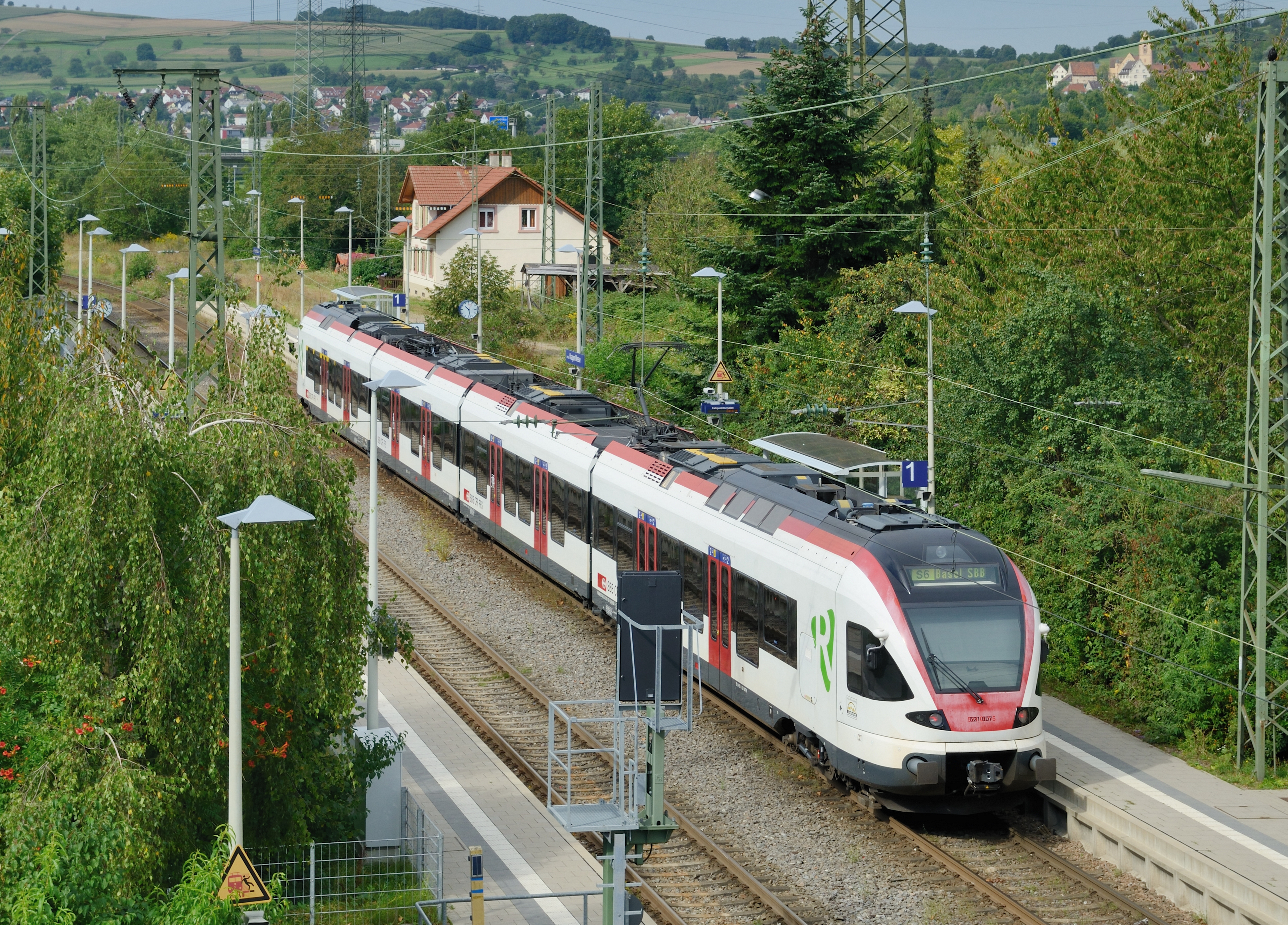 Lörrach: Regio S-Bahn (suburban metro)